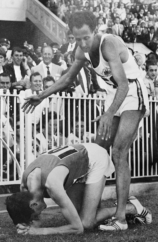 1956 Ron Delany Wins Olympic 1500 Meter Race Press Photo